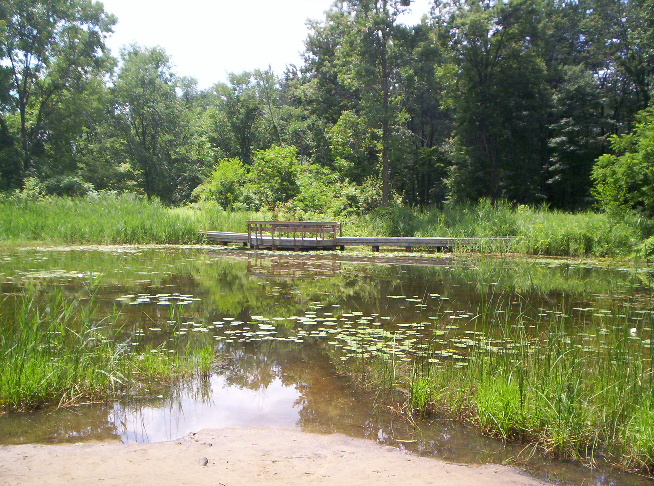 Marsh with boardwalk